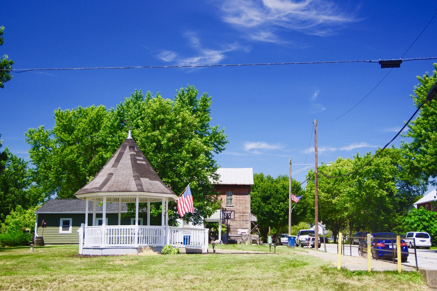 Gazebo and other buildings along Talmadge Road in Clayton, Ohio, United States.